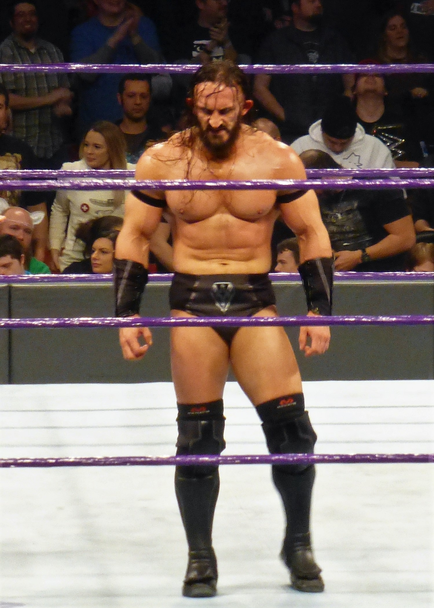 Neville at WWE's Event Shakedown 50 in December, 2016.